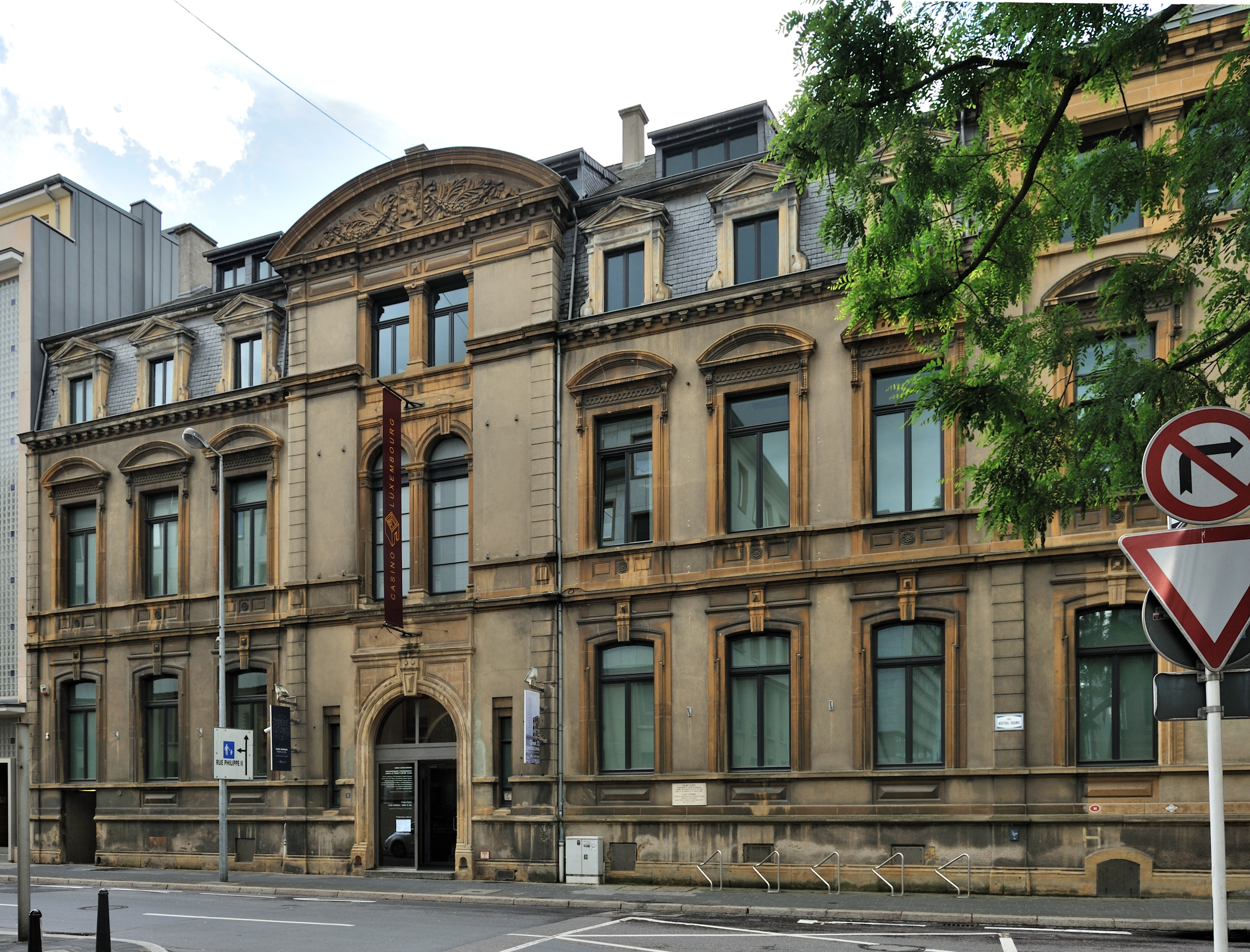 Casino Luxembourg-Forum d'art contemporain seen from rue Notre-Dame, in Luxembourg City.